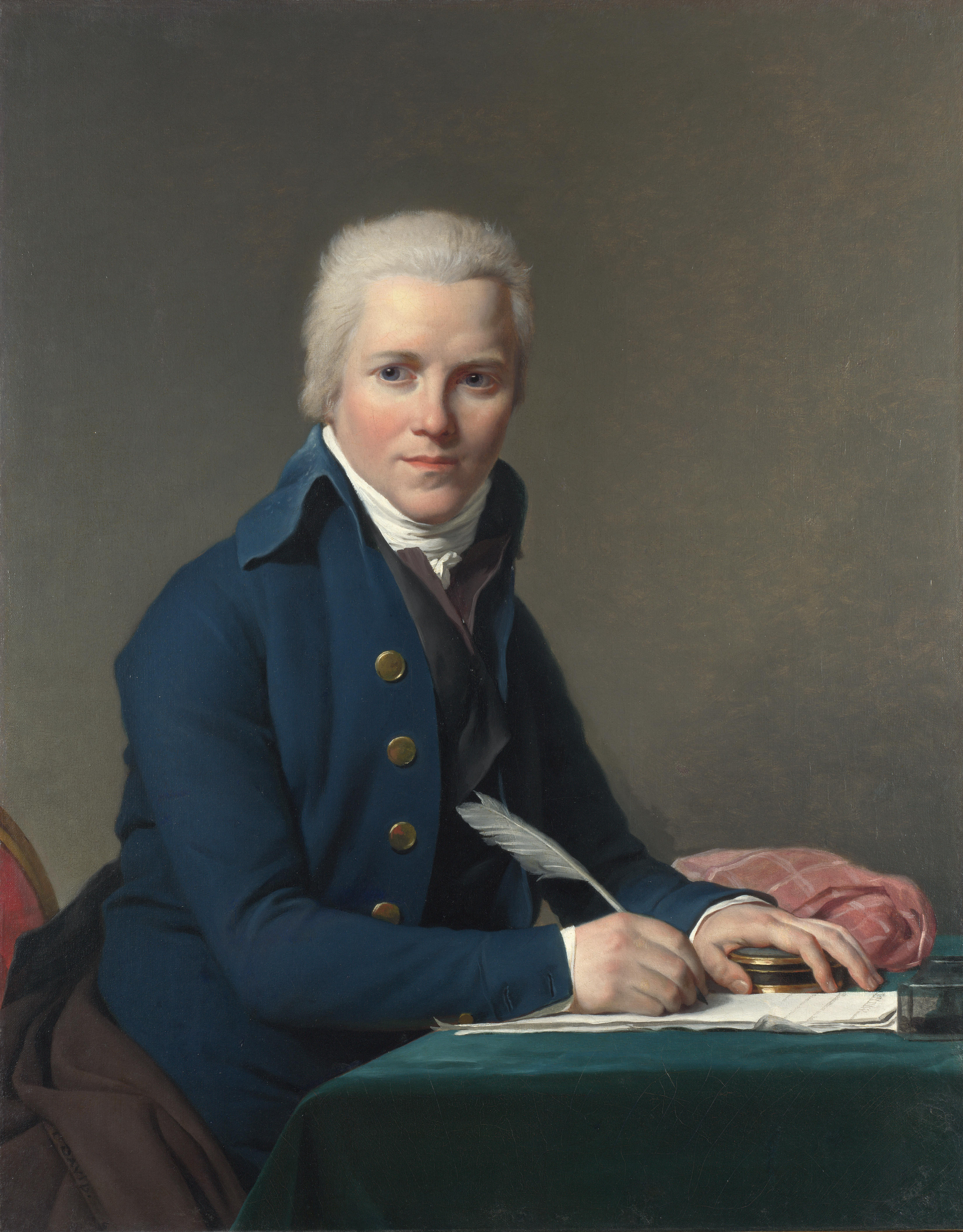 The Dutch envoy in Paris Jacobus Blauw (1759-1829)